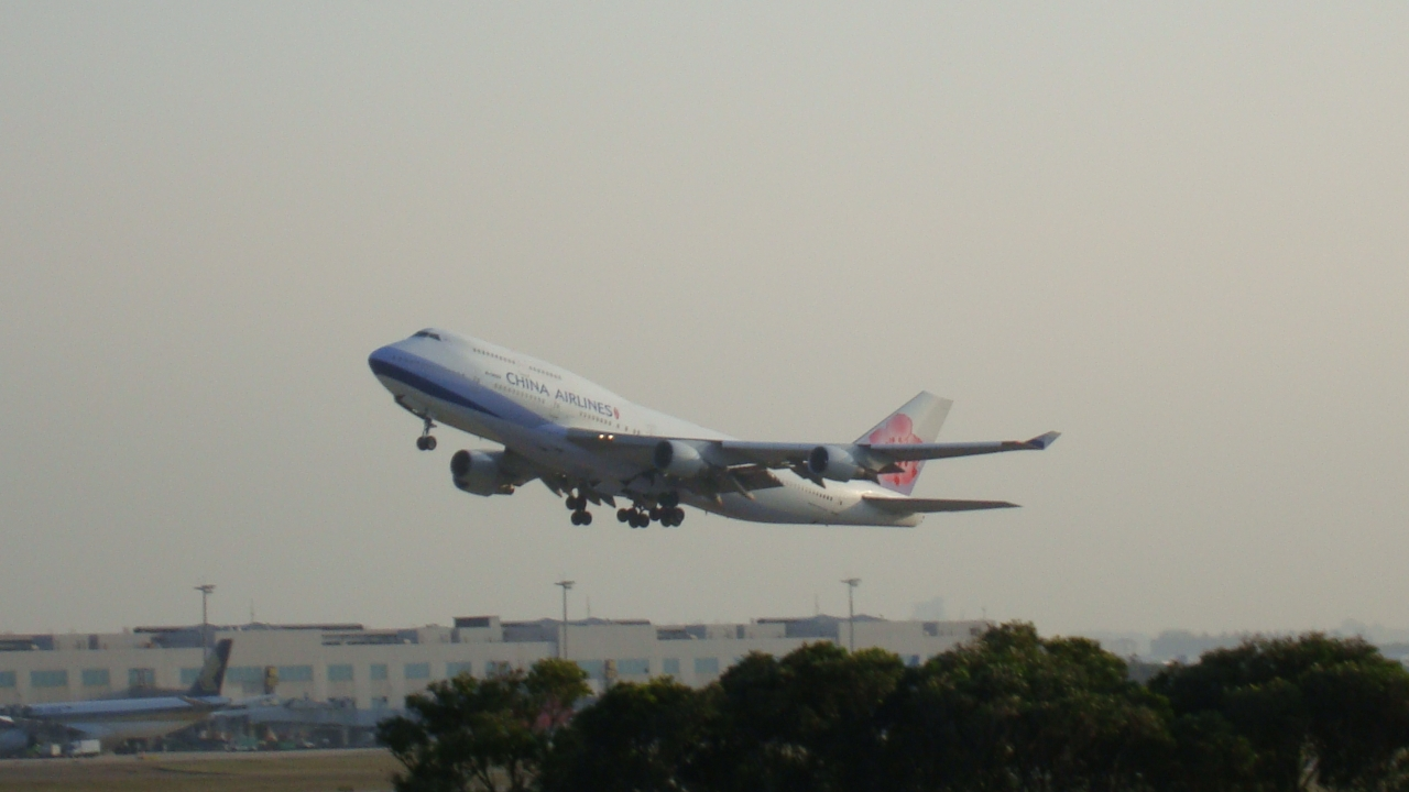 China Airlines Boeing 747-400 take off from Taoyuan International Airport north runway